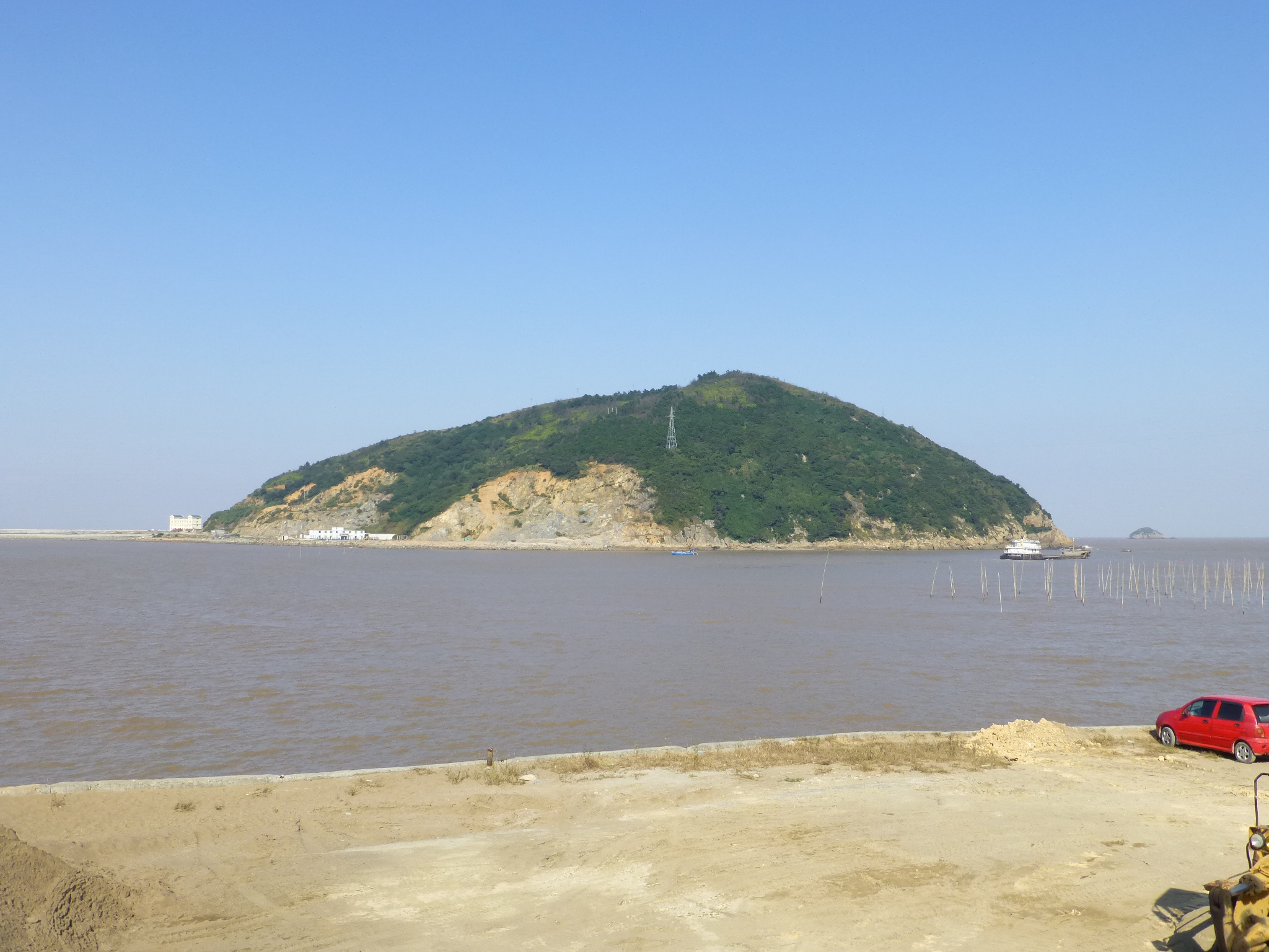 Pipa Shan. an island mountain in the East China Sea, near the former Pacao Town (now part of Longgang Town), Cangnan County, Zhejiang, China. A land reclamation project may have now connected it with the mainland.